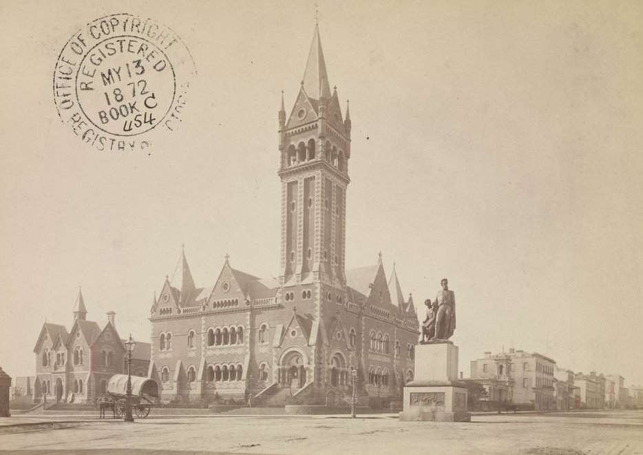 "Photograph of the Congregational Church, corner Collins and Exhibition Streets. This is now St. Michael's Uniting Church." - State Library of Victoria